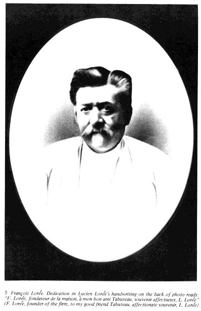 François Lorée, (1835-1902). Dedication in Lucien Lorée's handwriting on the back of the photo reads: "F. Lorée, fondateur de la maison, à mon bon ami Tabuteau, souvenir affecteux, L. Lorée" (F. Lorée founder of the firm, to my good friend Tabuteau, affectionate souvenir, L. Lorée)